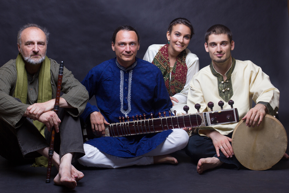 Meshinda